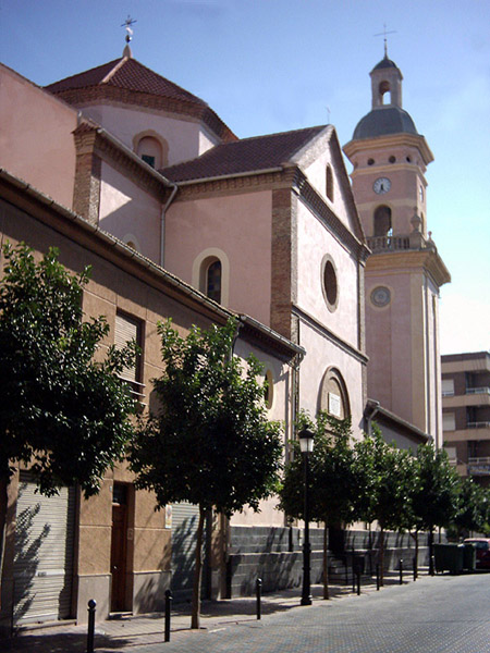 Main Street, Beniajan (Murcia, Spain)